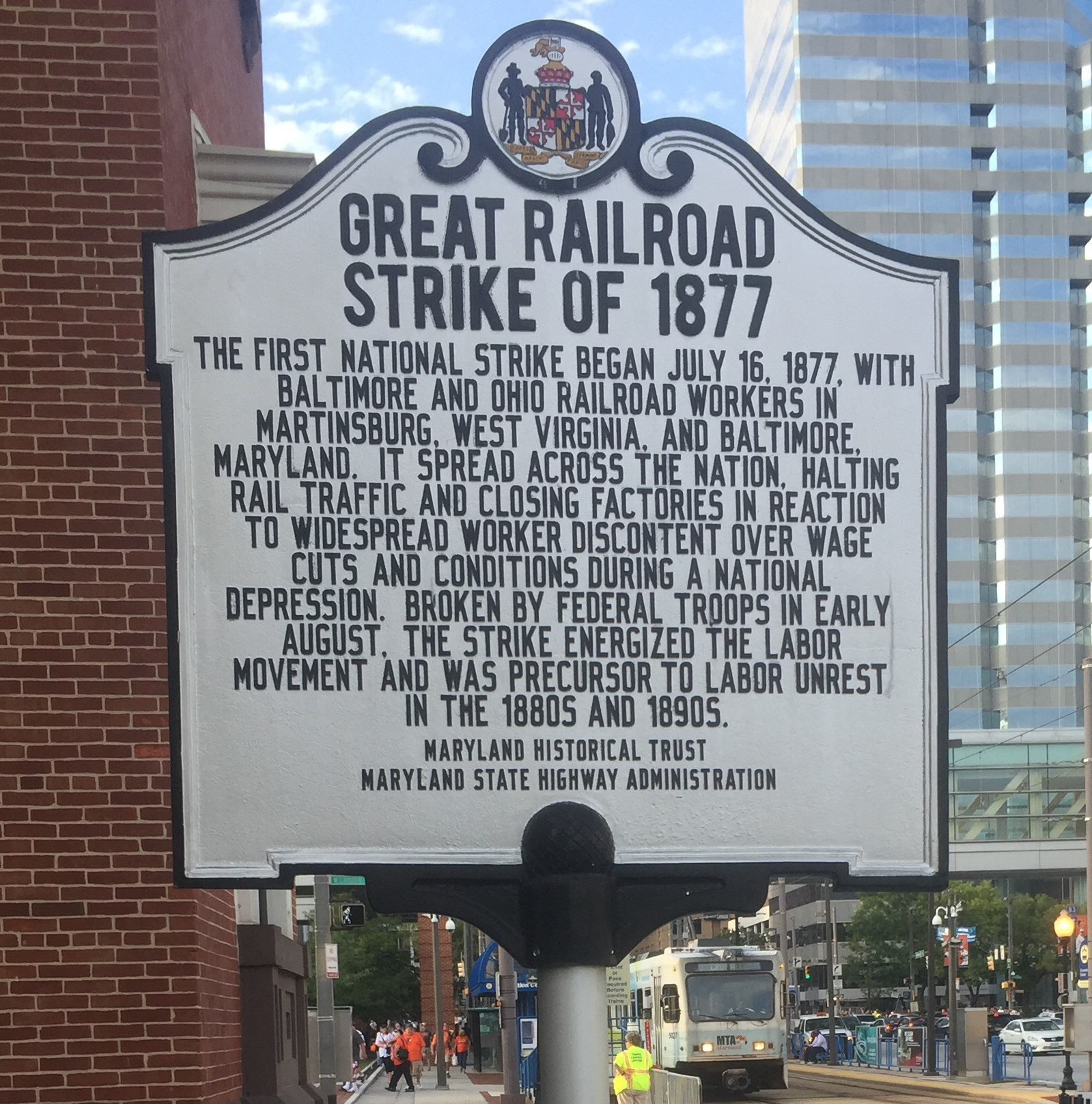 Historical marker in Baltimore City, Maryland, U.S. unveiled in 2013 commemorating the Great Railroad Strike of 1877